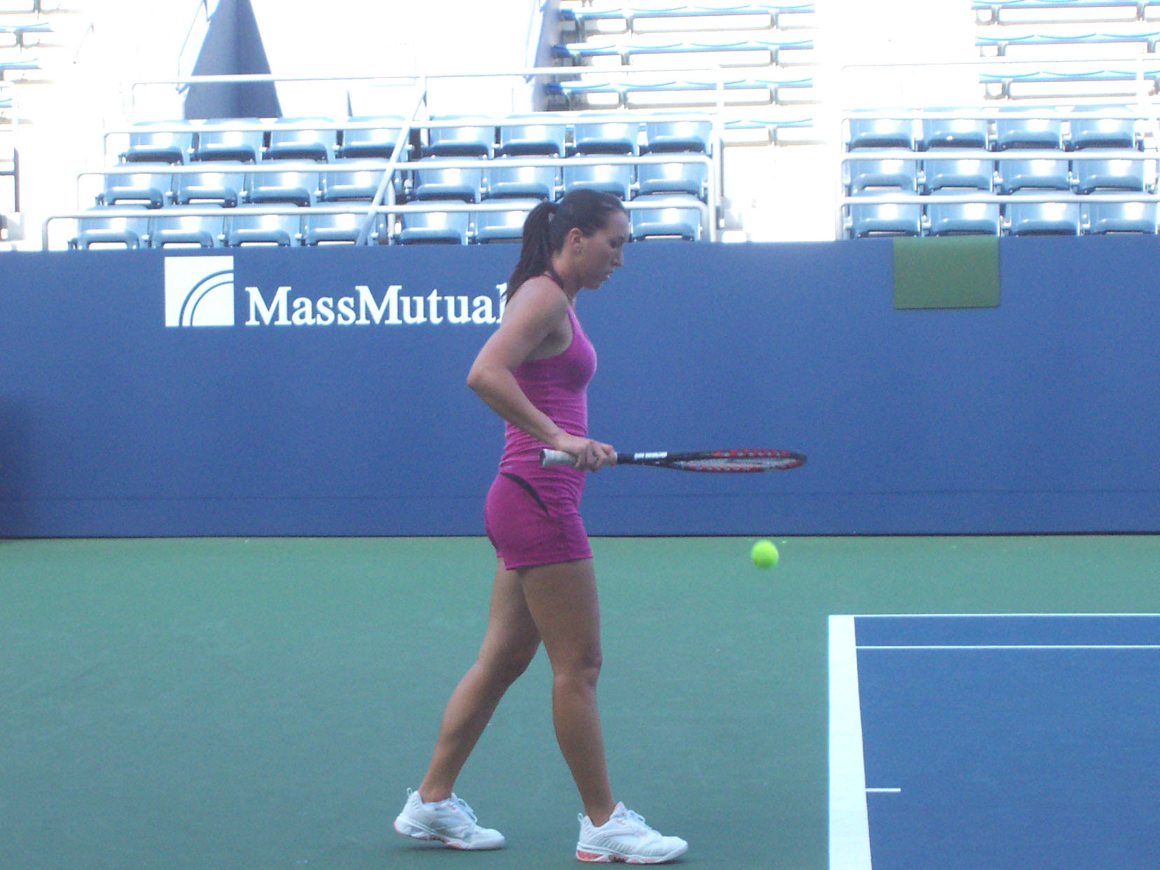 Jelena Jankovic Practicing At The 2007 US Open